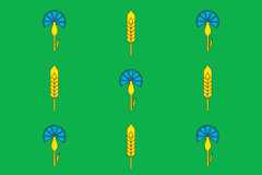 Flag of Novosil, Oryol Region, Russia